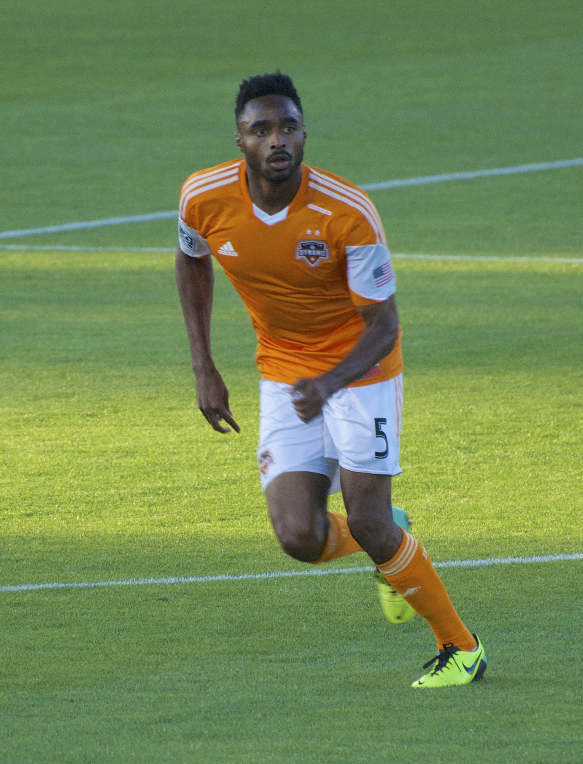 Warren Creavalle, Houston Dynamo vs San Jose Earthquakes, Buck Shaw Stadium, 25 May 2014